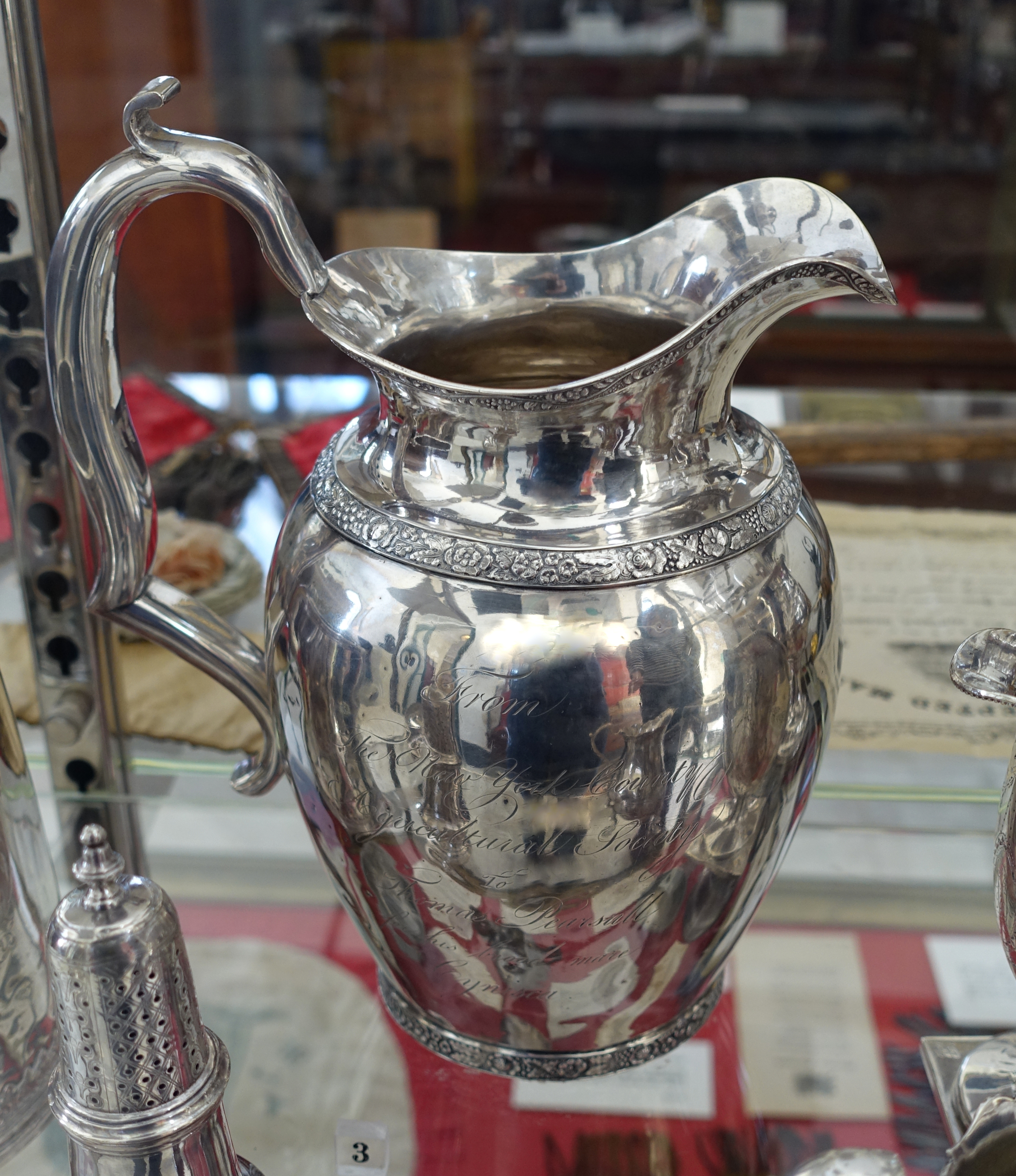 Exhibit in the Bennington Museum - Bennington, Vermont, USA. This work is in the public domain because the artist died more than 70 years ago.